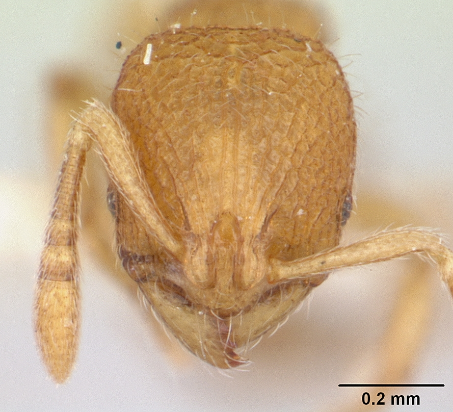 Head view of ant Rogeria alzatei specimen casent0178167.